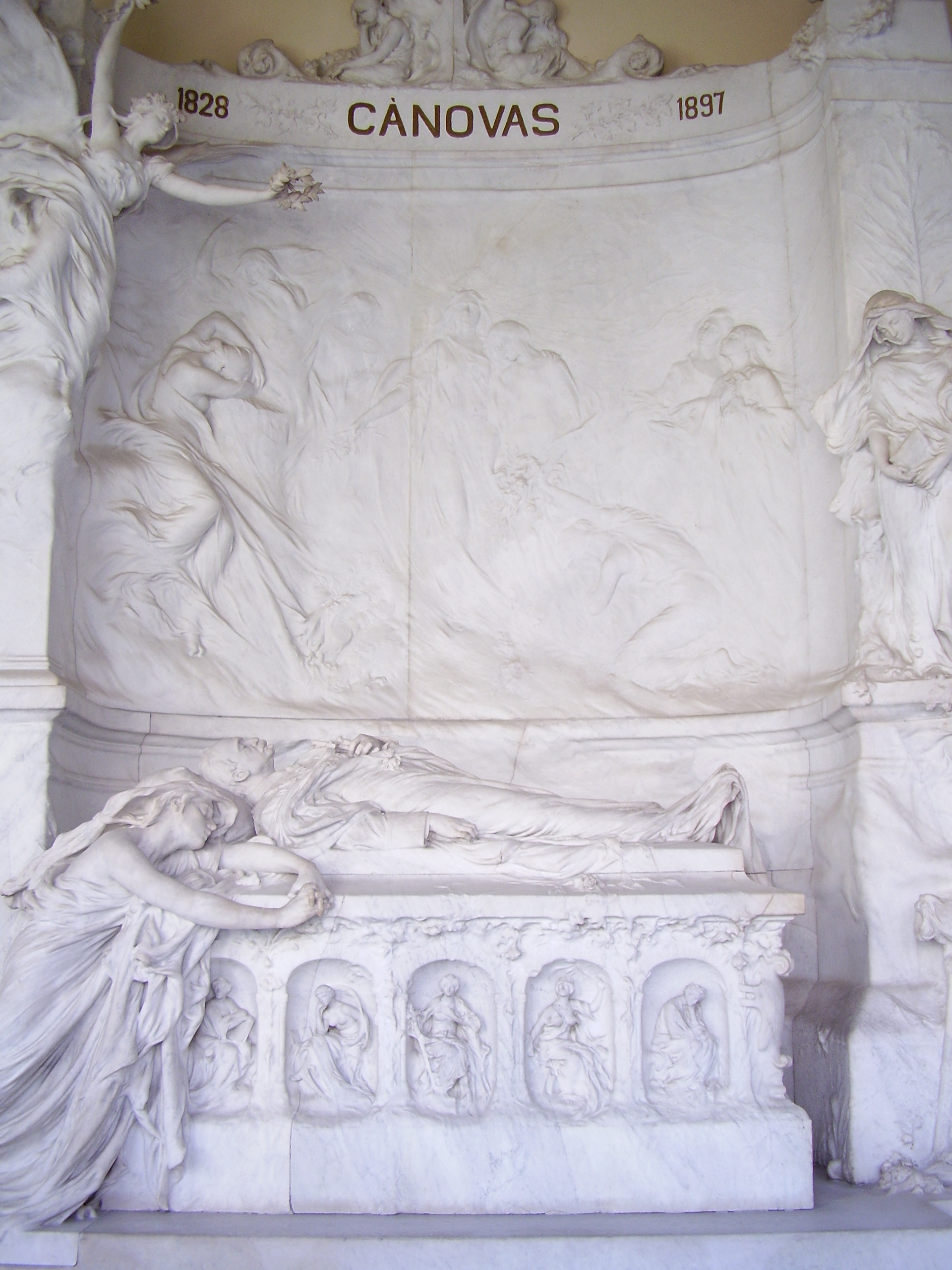 Mausoleum of Antonio Cánovas del Castillo (1828–1897), sculpted in white marble by Agustí Querol Subirats (1860–1909) in 1906. At the Panteón de Hombres Ilustres (Pantheon of Illustrious Men) in Madrid (Spain). Dimensions of the mausoleum: 800 x 740 x 278 centimetres.